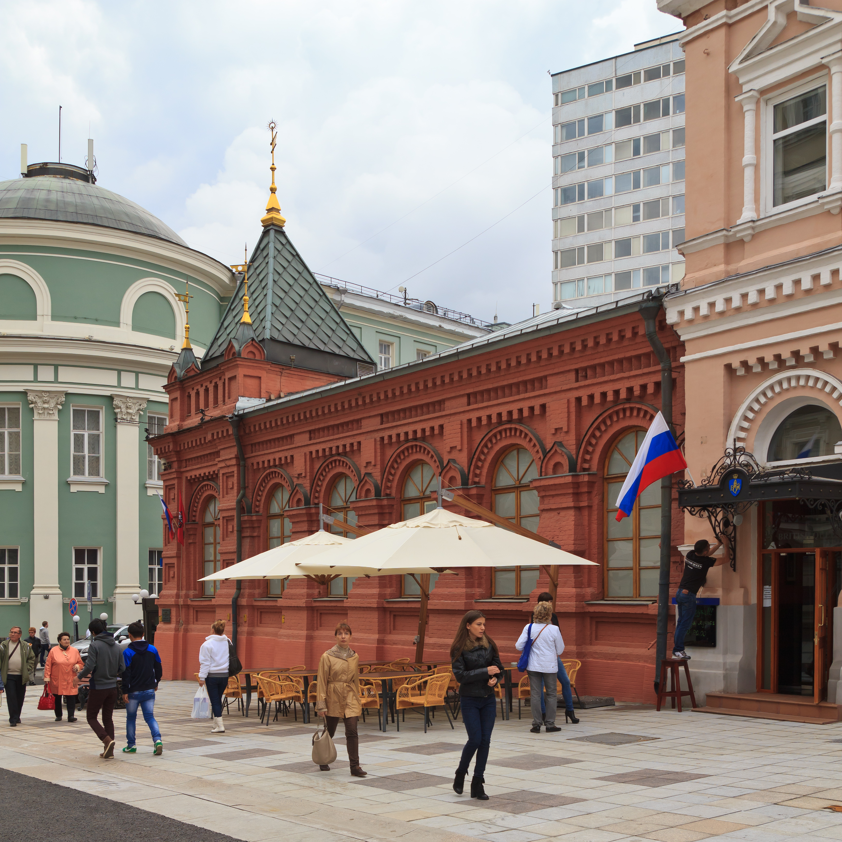 Day of the Town 2013 in Moscow, Russia. Bolshaya Dmitrovka Street.